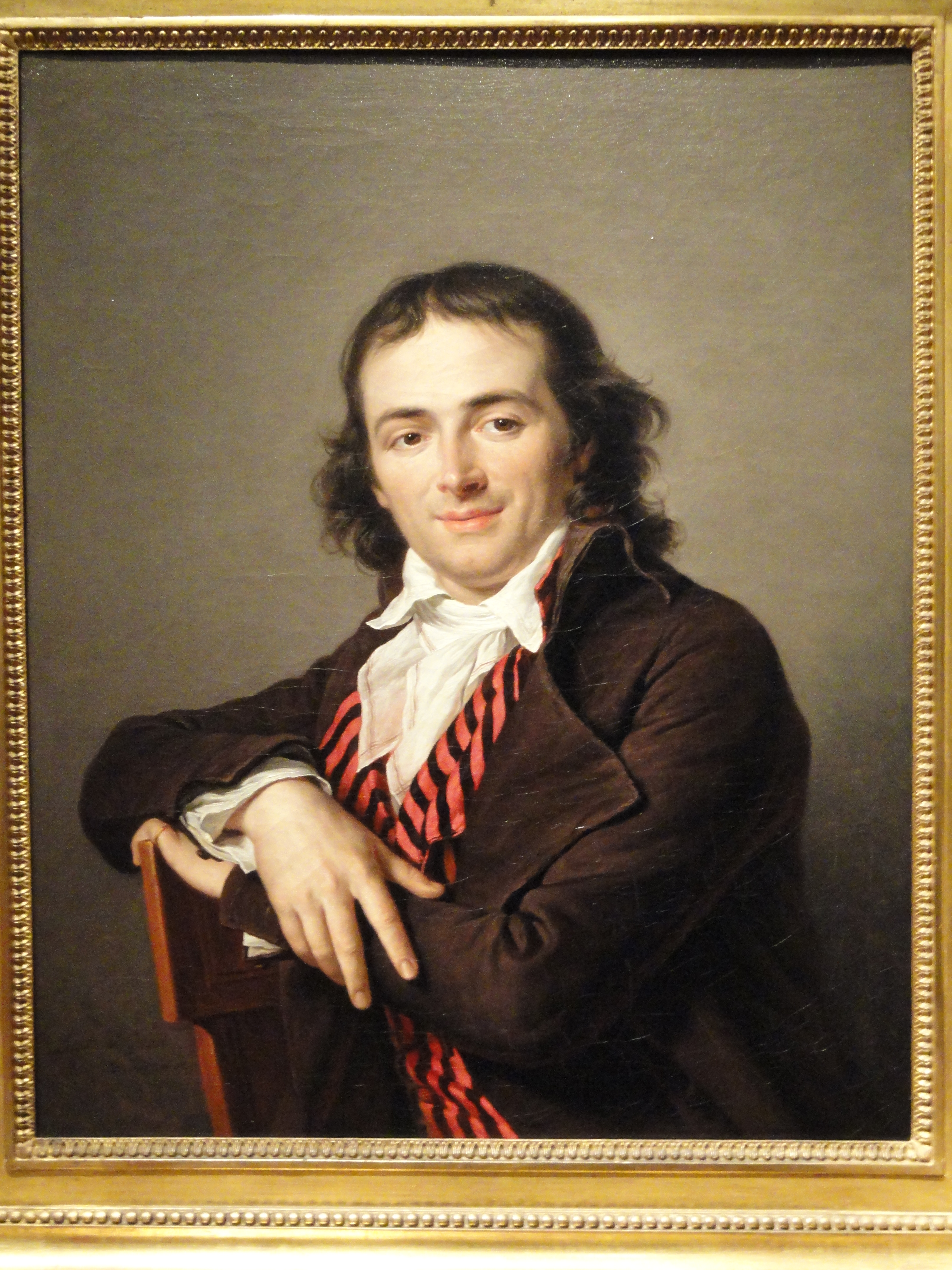 Exhibit in the Nelson-Atkins Museum of Art, Kansas City, Missouri, USA. ; I took this photograph and release it into the public domain.